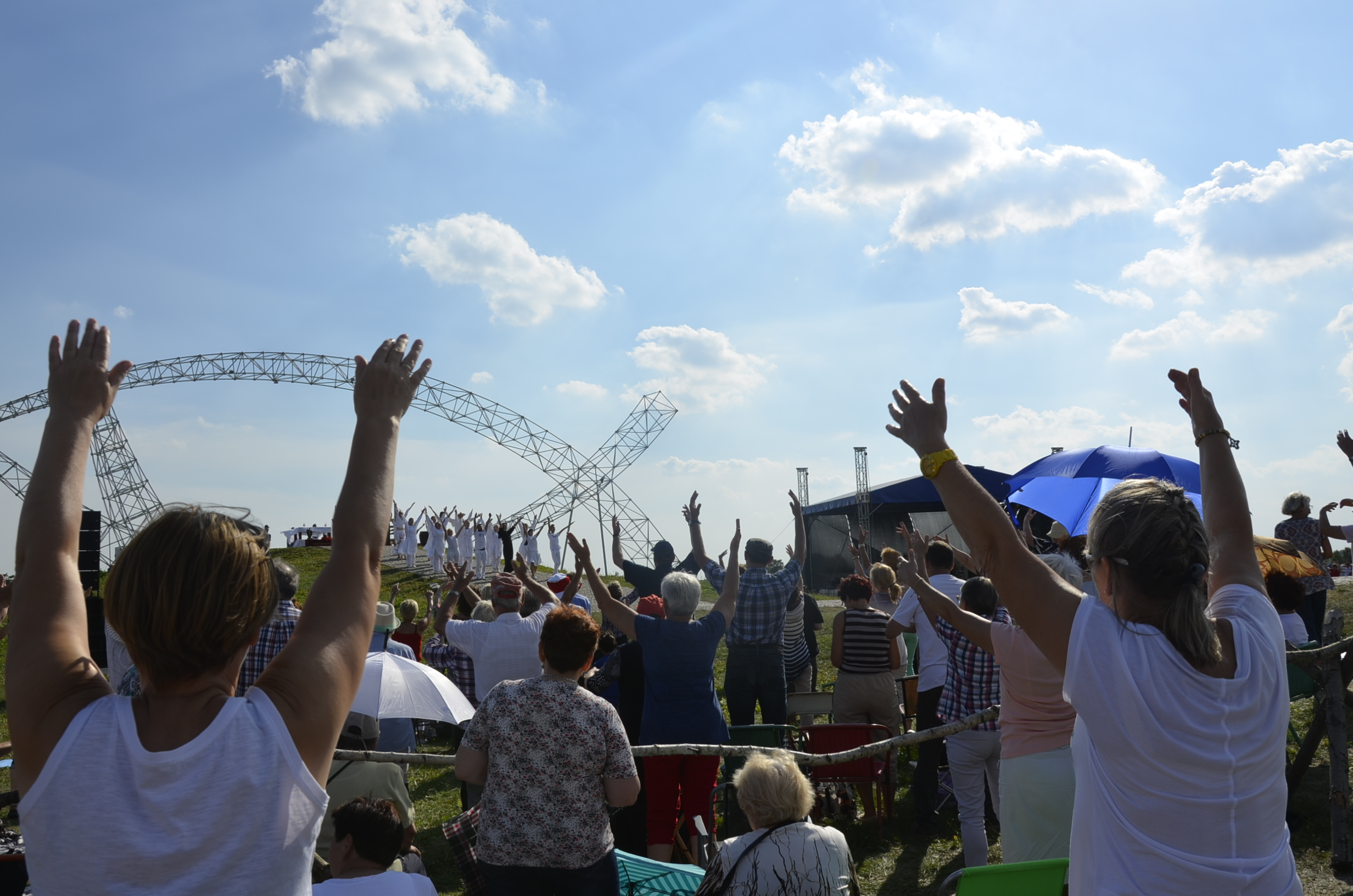 the elders sing and dance during senior meeting LEDNICA 2000